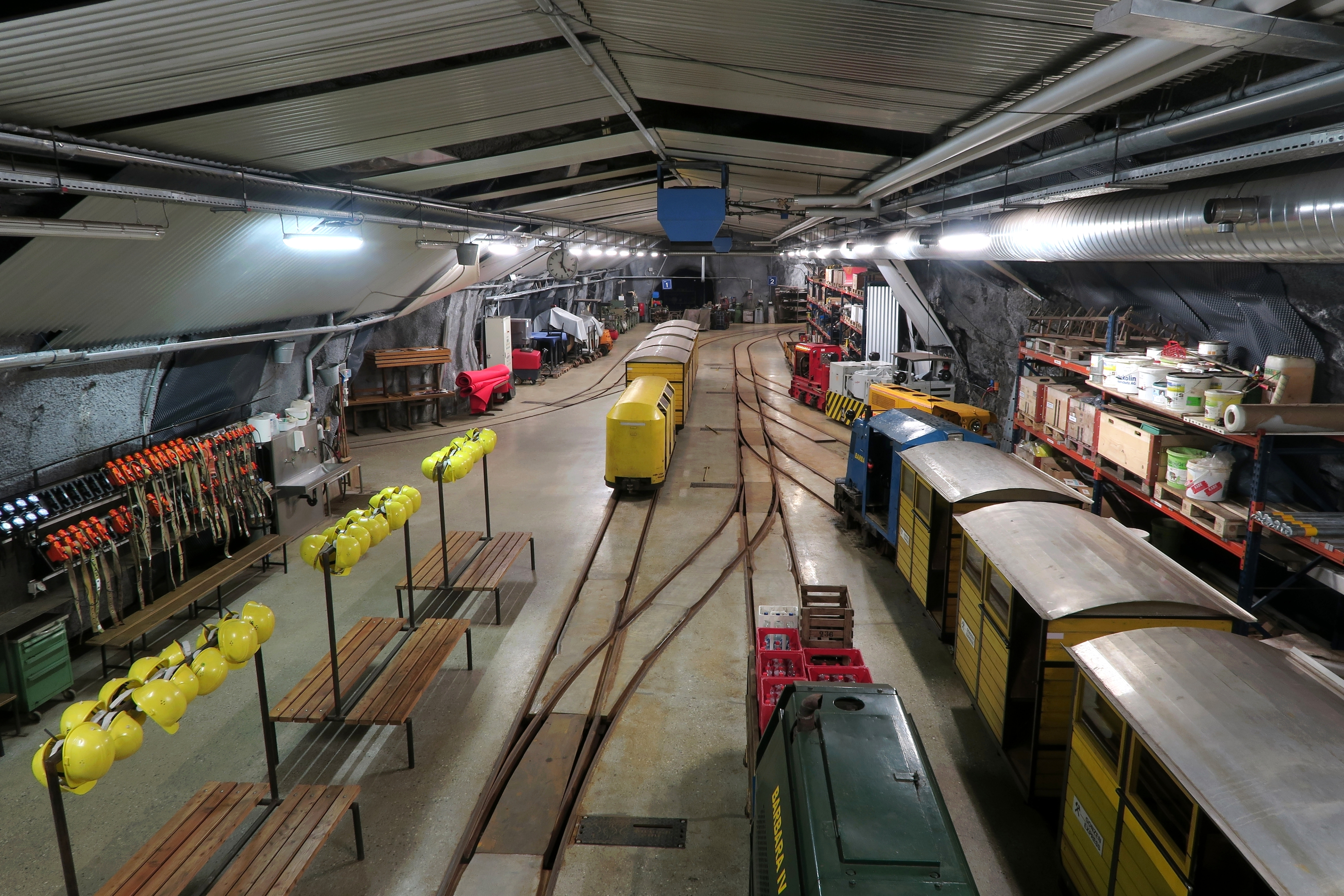 Here the visitors enter the train for the ride into the mountain. Five locomotives are available. One of them with a flywheel drive. Switzerland, May 31, 2016. (35/35)